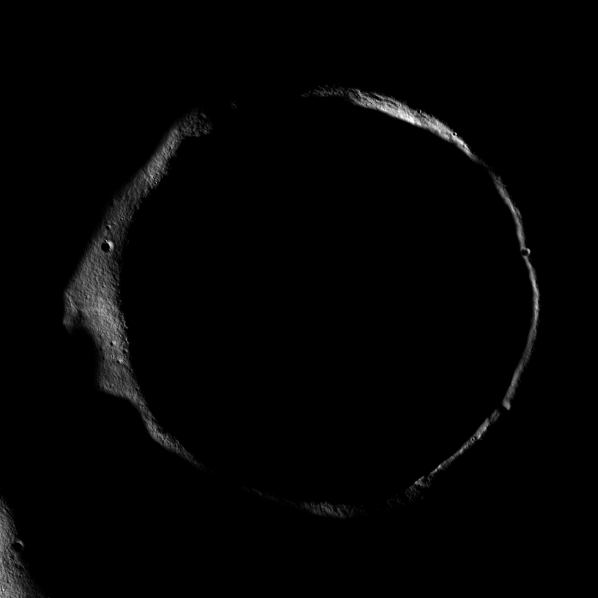 Lunar Reconnaissance Orbiter Narrow Angle Camera image of crater Erlanger at local sunrise